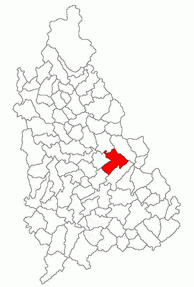 Locator map of Bucșani Commune in Dâmbovița County, Romania